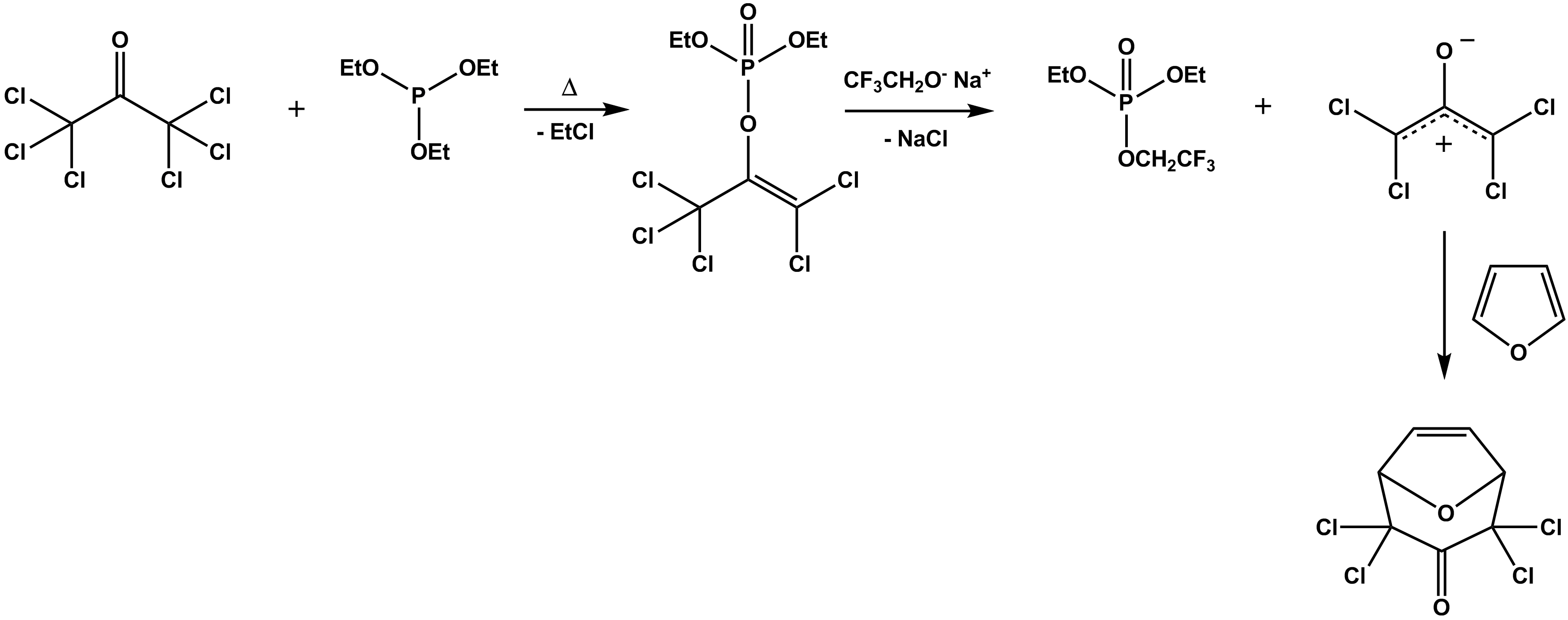 Perkow reaction using hexachloroacetone. Corrected version of Image:Perkow reaction hexachloroacetone.png.